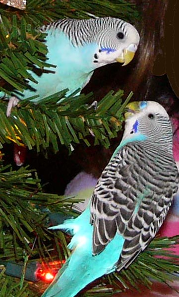 Two blue Budgerigars. The female (Tweetie) has a white cere (the area above her beak) and the male (Little Guy) has a blue cere.